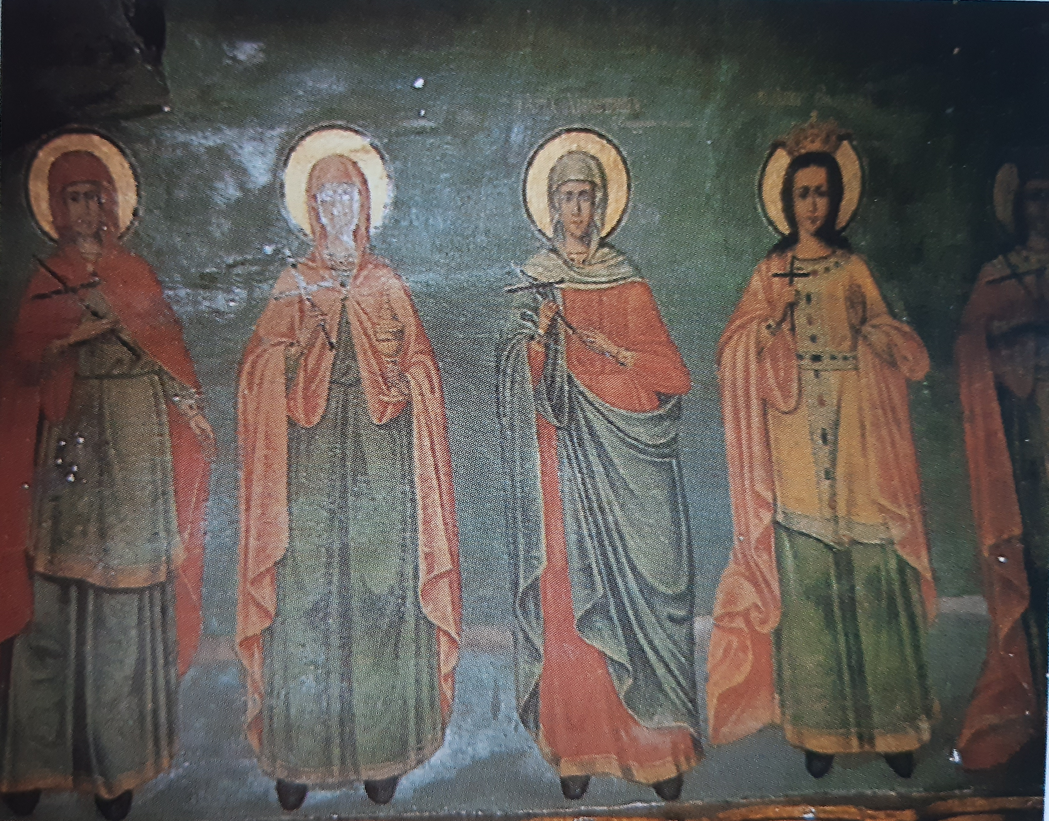 Saint Paraskevi of Ikonomos Church Frescos by Athanasios Panagiotou